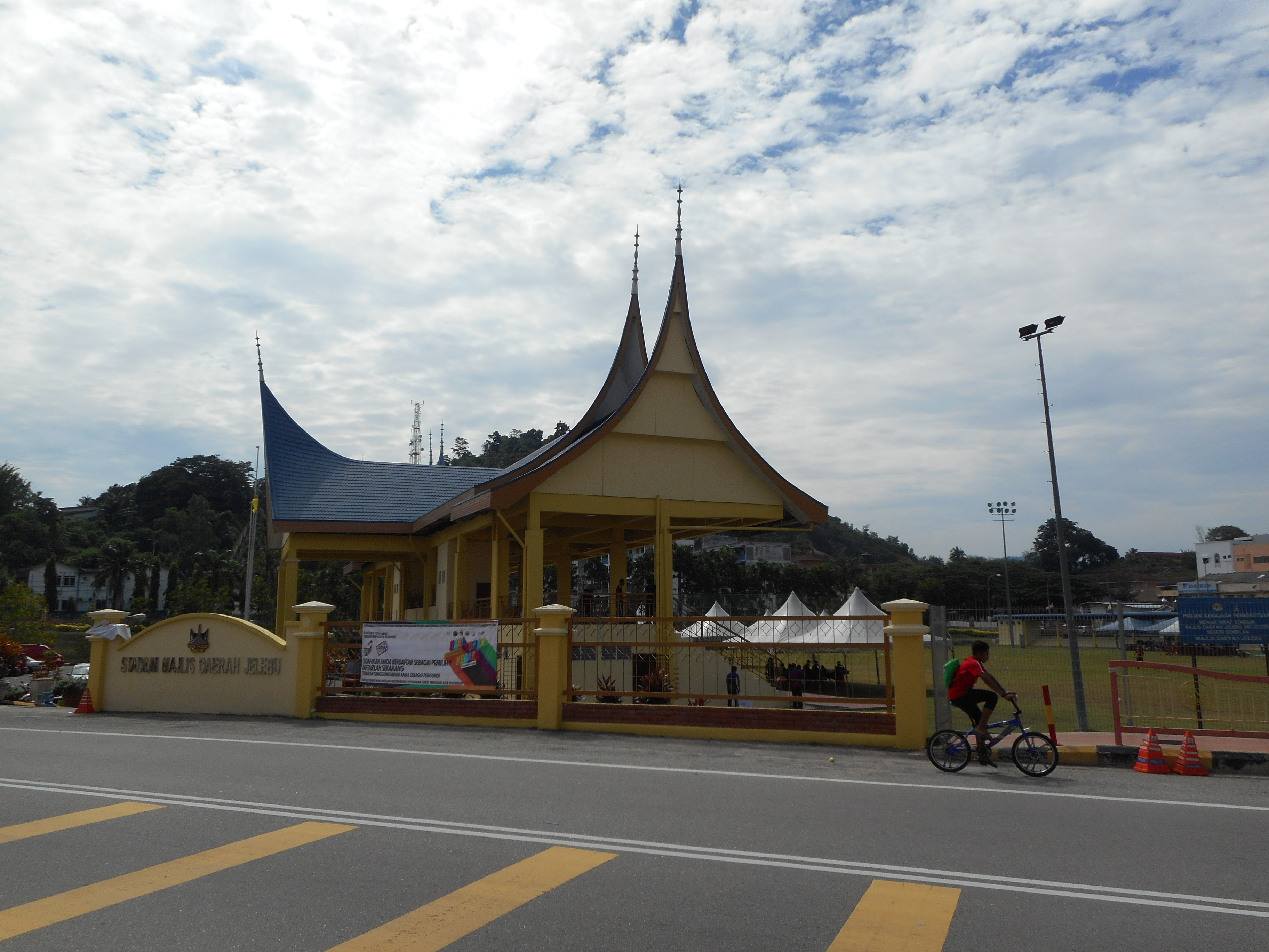 Jelebu District Council Stadium, Kuala Kelawang, Jelebu, Negeri Sembilan, Malaysia